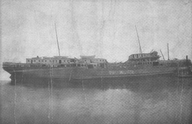 S.S. POWHATAN shortly after being brought to the surface; The American Marine Engineer January 1918 cover photograph.